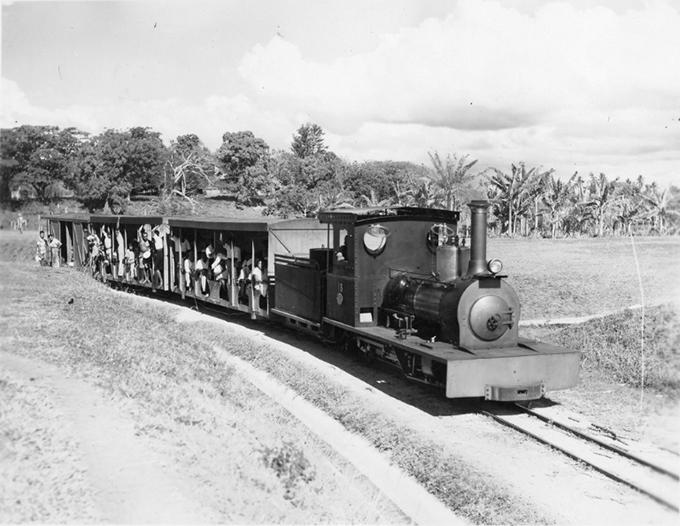 Passenger train near Rarawai Mill, 1947 (Australian National University 171-1039)